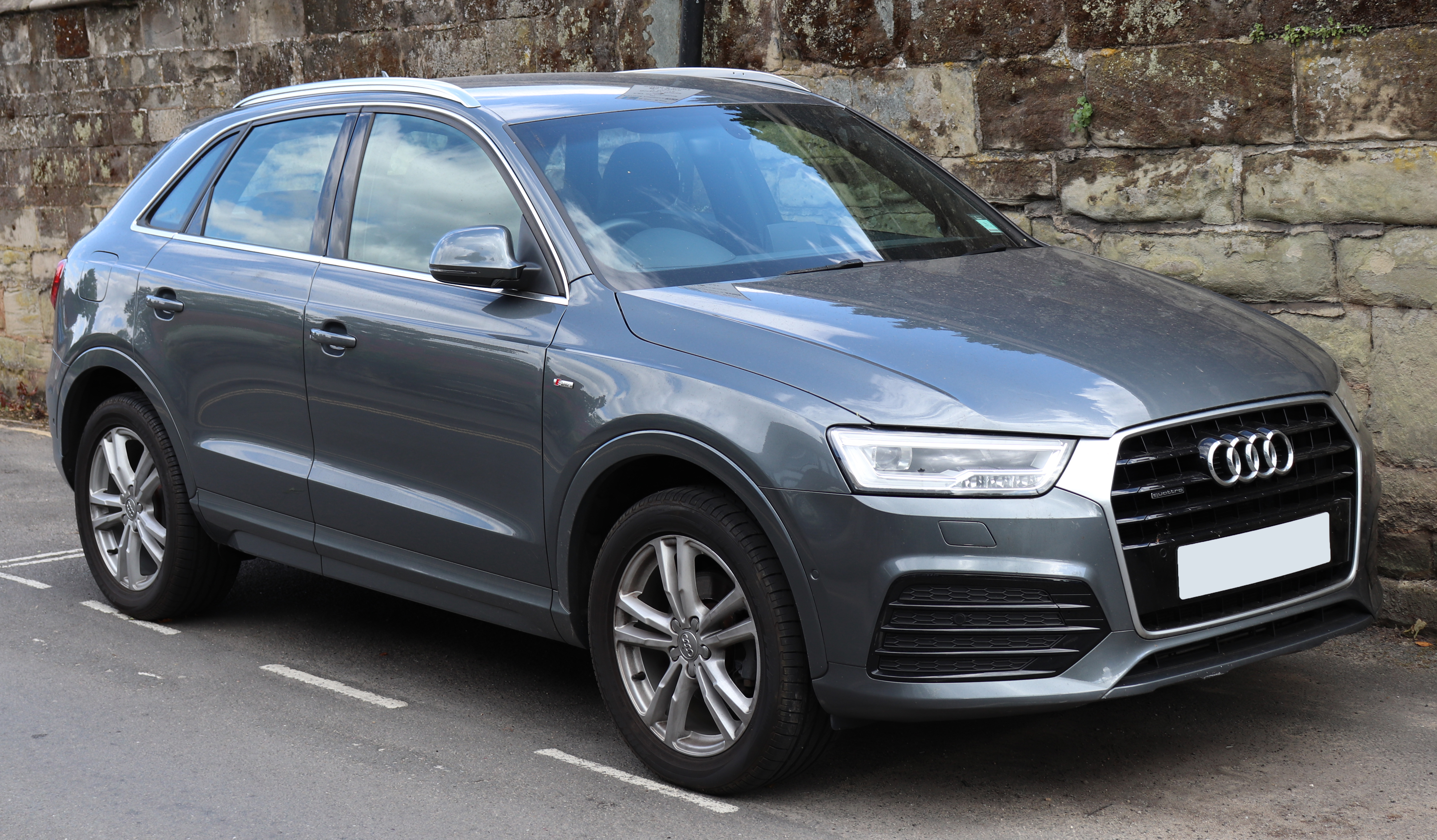 2015 Audi Q3 S Line TDi Quattro S-A 2.0 Front Taken in Warwick